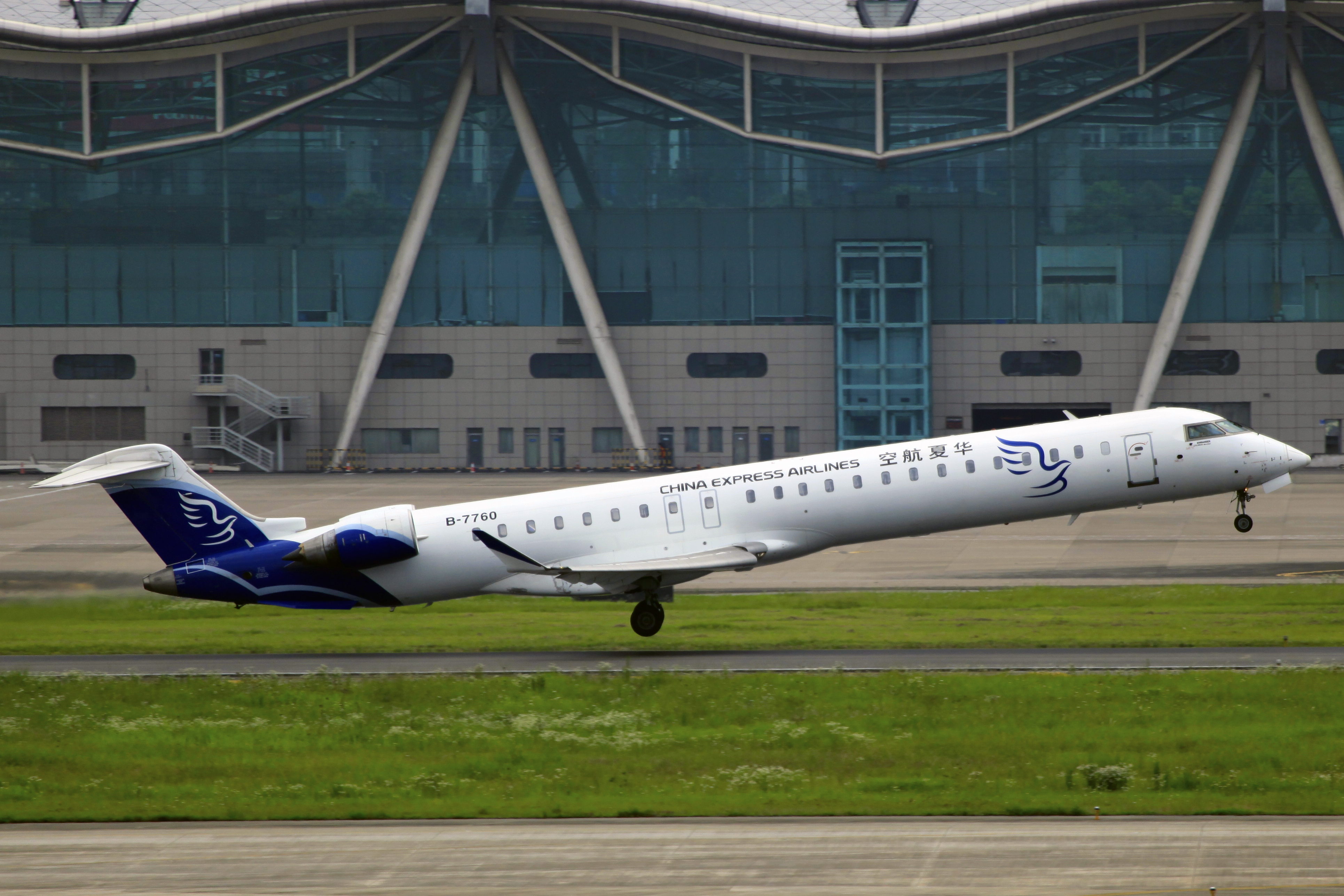 B-7760 | China Express Airlines | CRJ-900 | Chongqing Jiangbei International Airport [CKG]